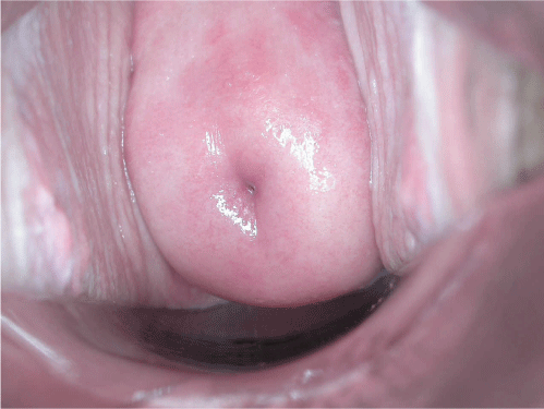 Negative visual inspection with acetic acid of the cervix (photo by cervicography)